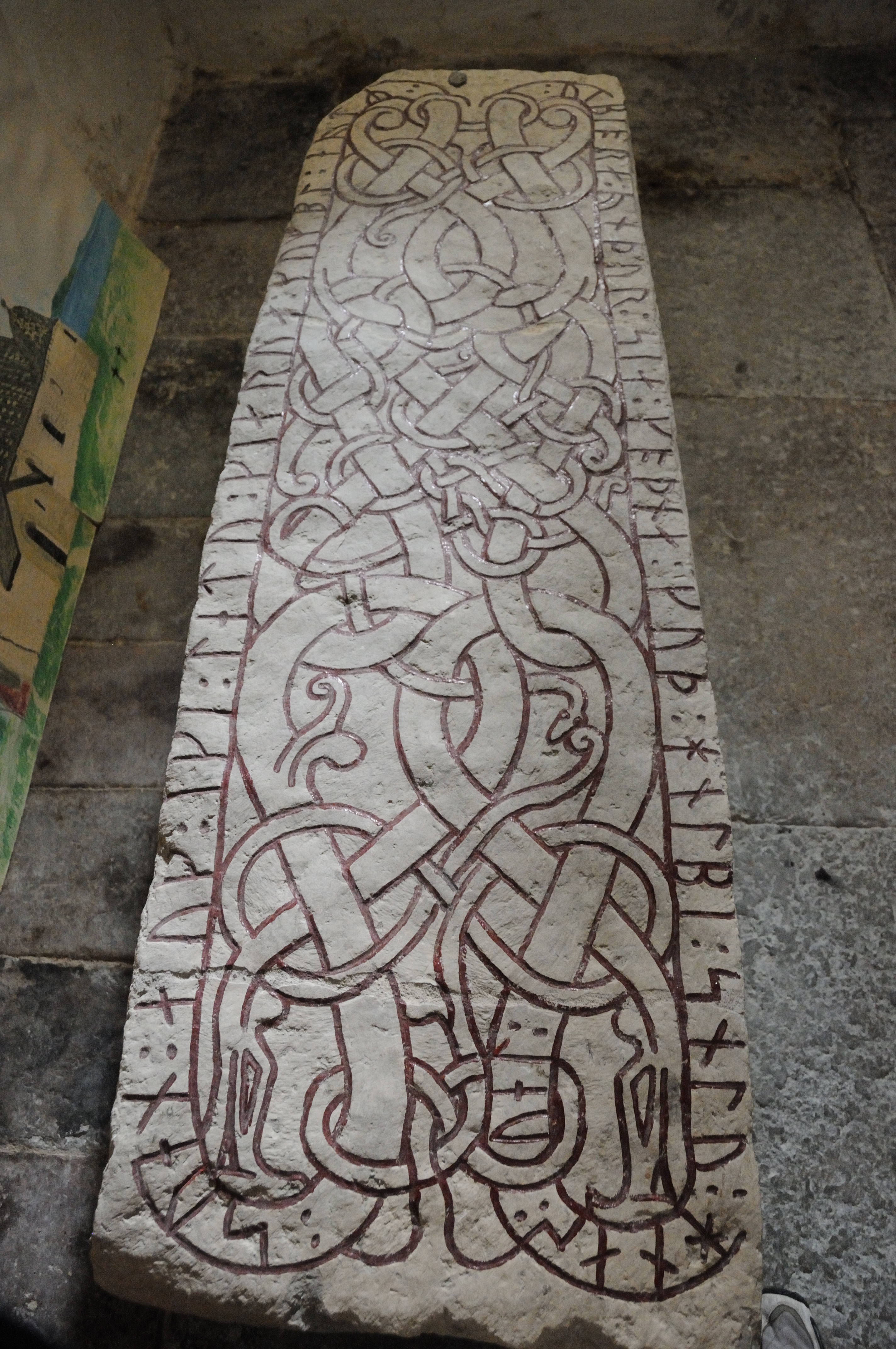 Runestone Ög 220 in Ostra Skrukeby church